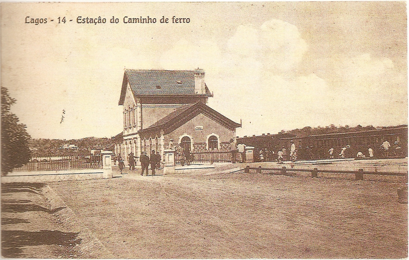 Postcard with the old Lagos Railway Station, in Portugal.